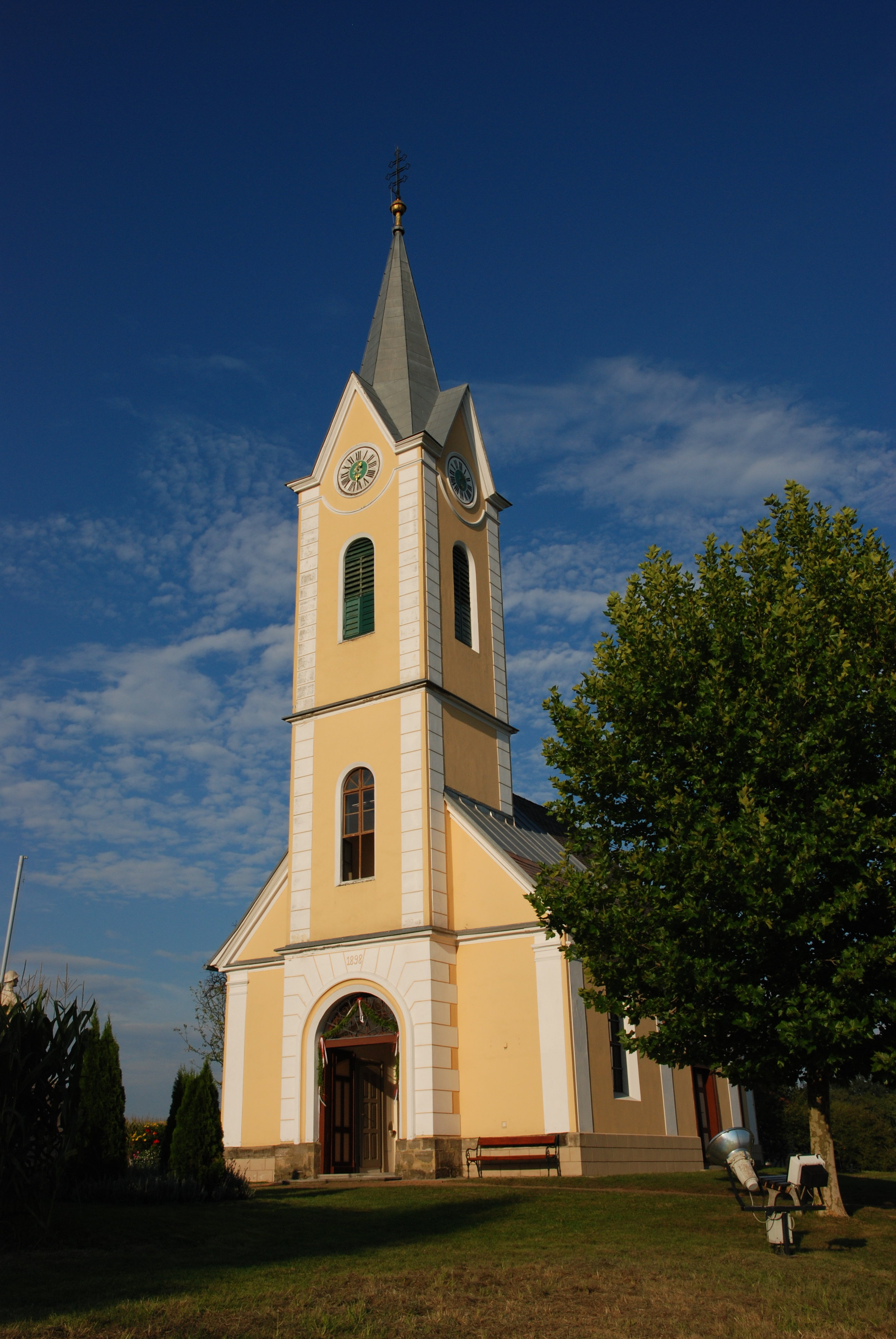 Kirche Helfbrunn, Ratschendorf